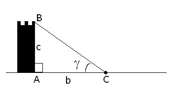 height of the tower